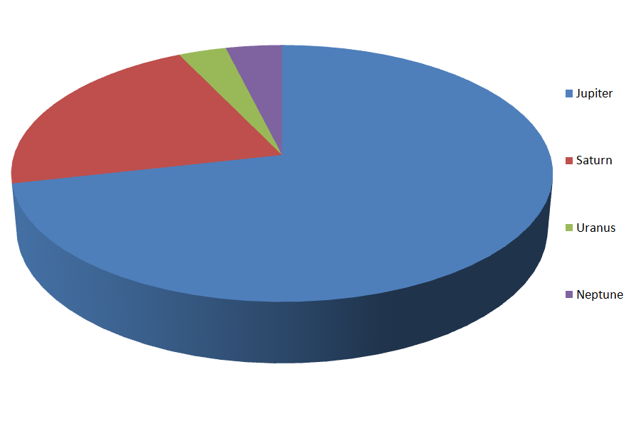 Relative masses of the gas giants